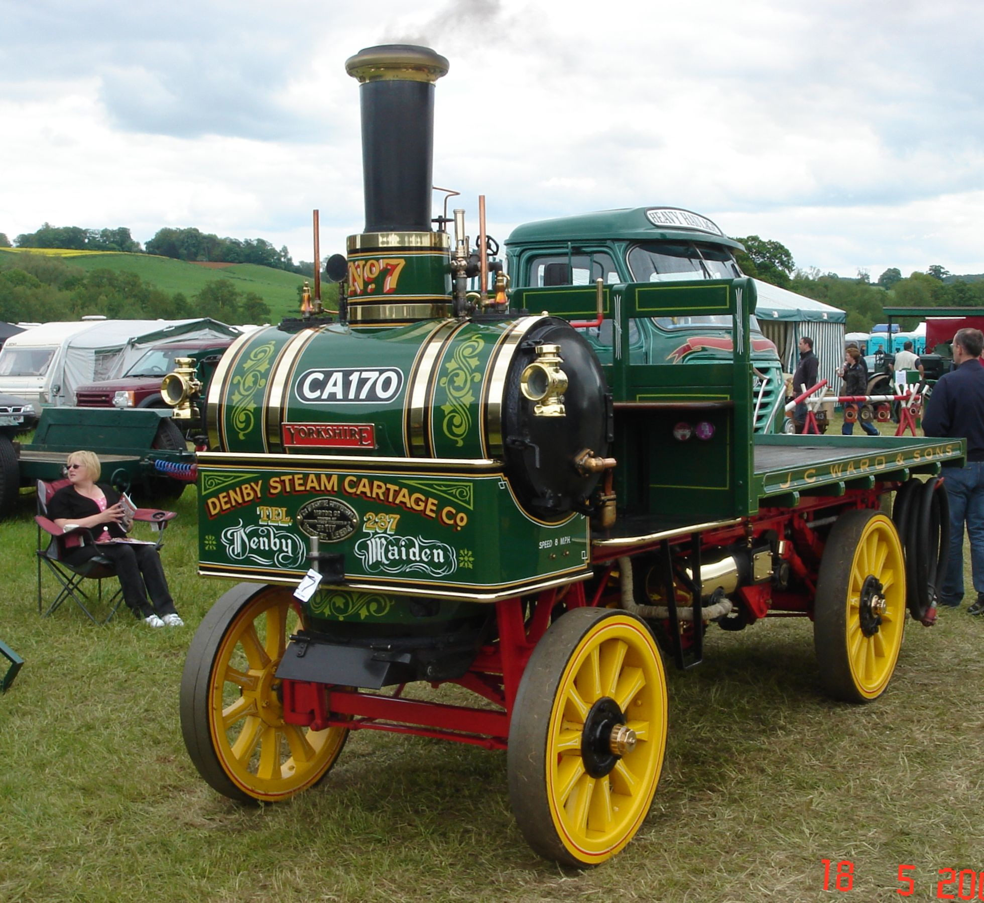 Yorkshire patent steam wagon No. 117, Denby Maiden. Photographed at Belvoir Castle show & Harewood House Steam Rally in 2008